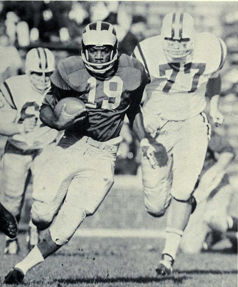 Photograph of Carl Ward